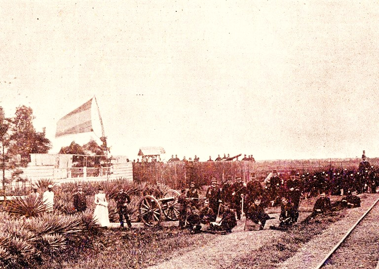 Lambaro, Aceh